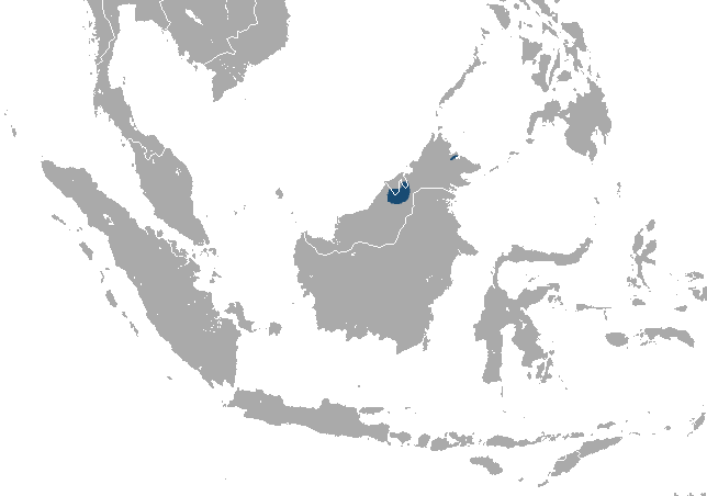 Bornean Pygmy Shrew (Suncus hosei) range